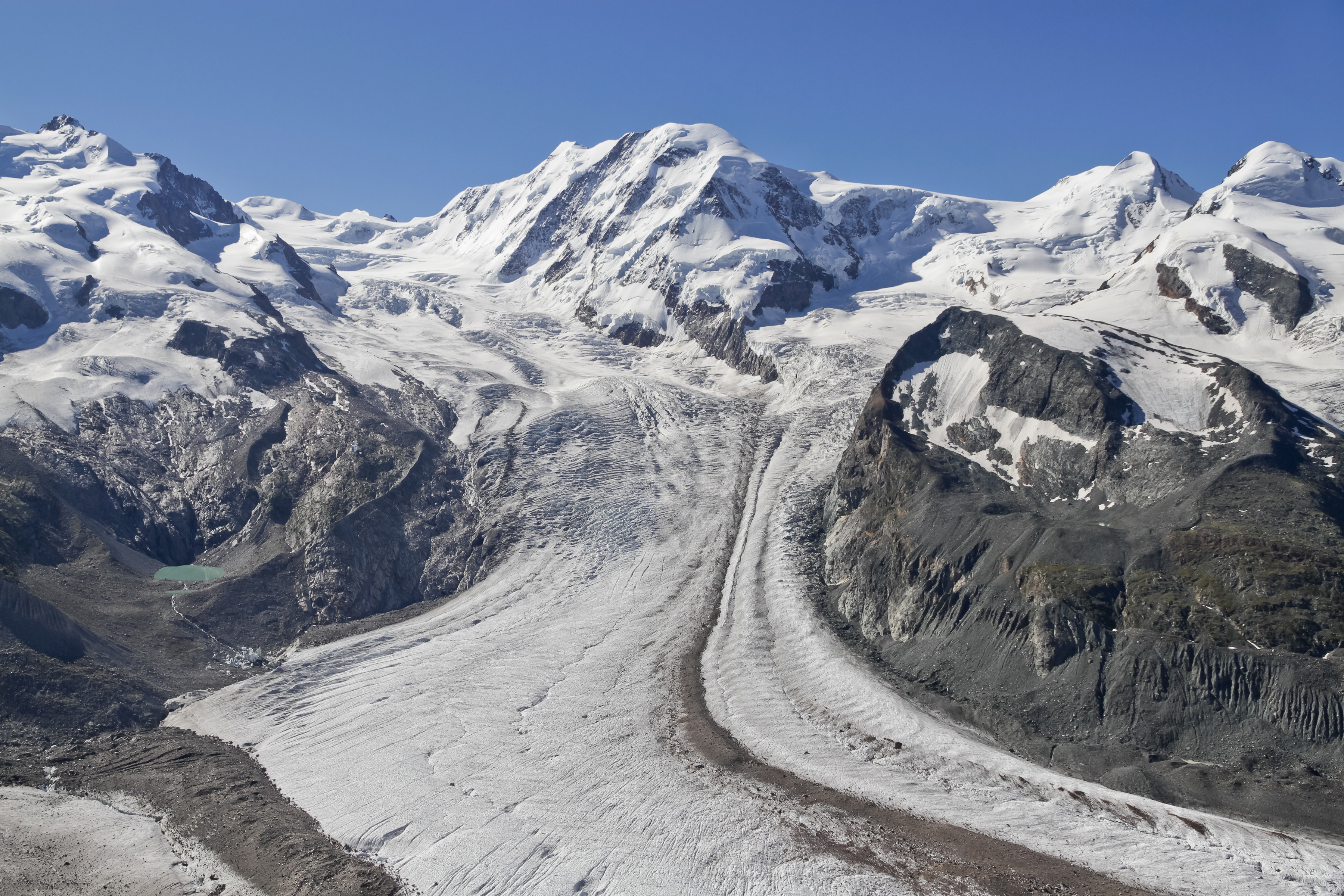 Grenzgletscher as seen from Gornergrat in Wallis, Switzerland in 2012 August. The mountain in the middle is Lyskamm.